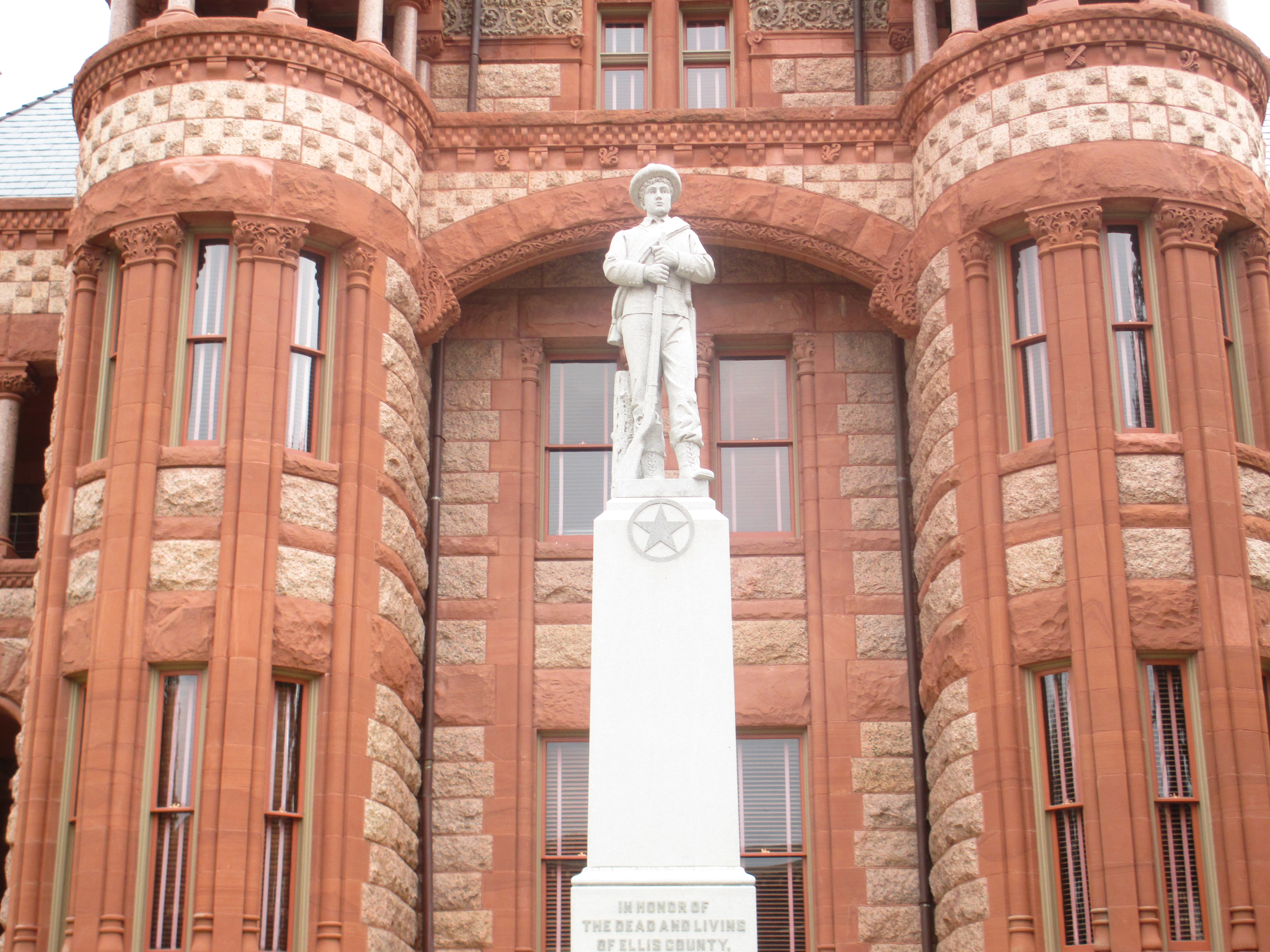 Confederate Monument in Waxahachie, TX (pre-1912)